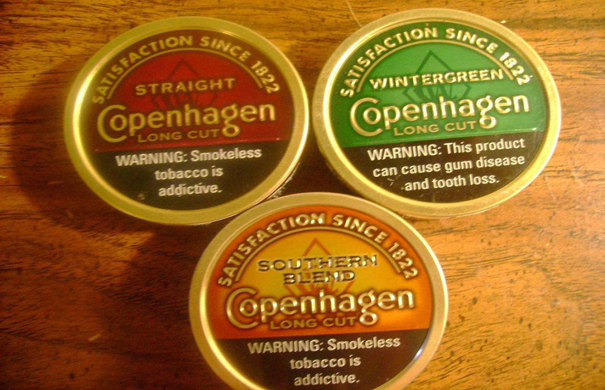 Three most popular Cope cans.